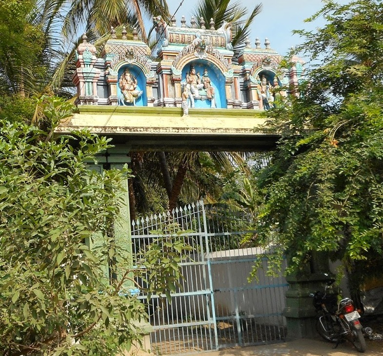 Senganur Satyagireeswar Temple சேங்கனூர் சத்தியகிரீஸ்வரர் கோயில்